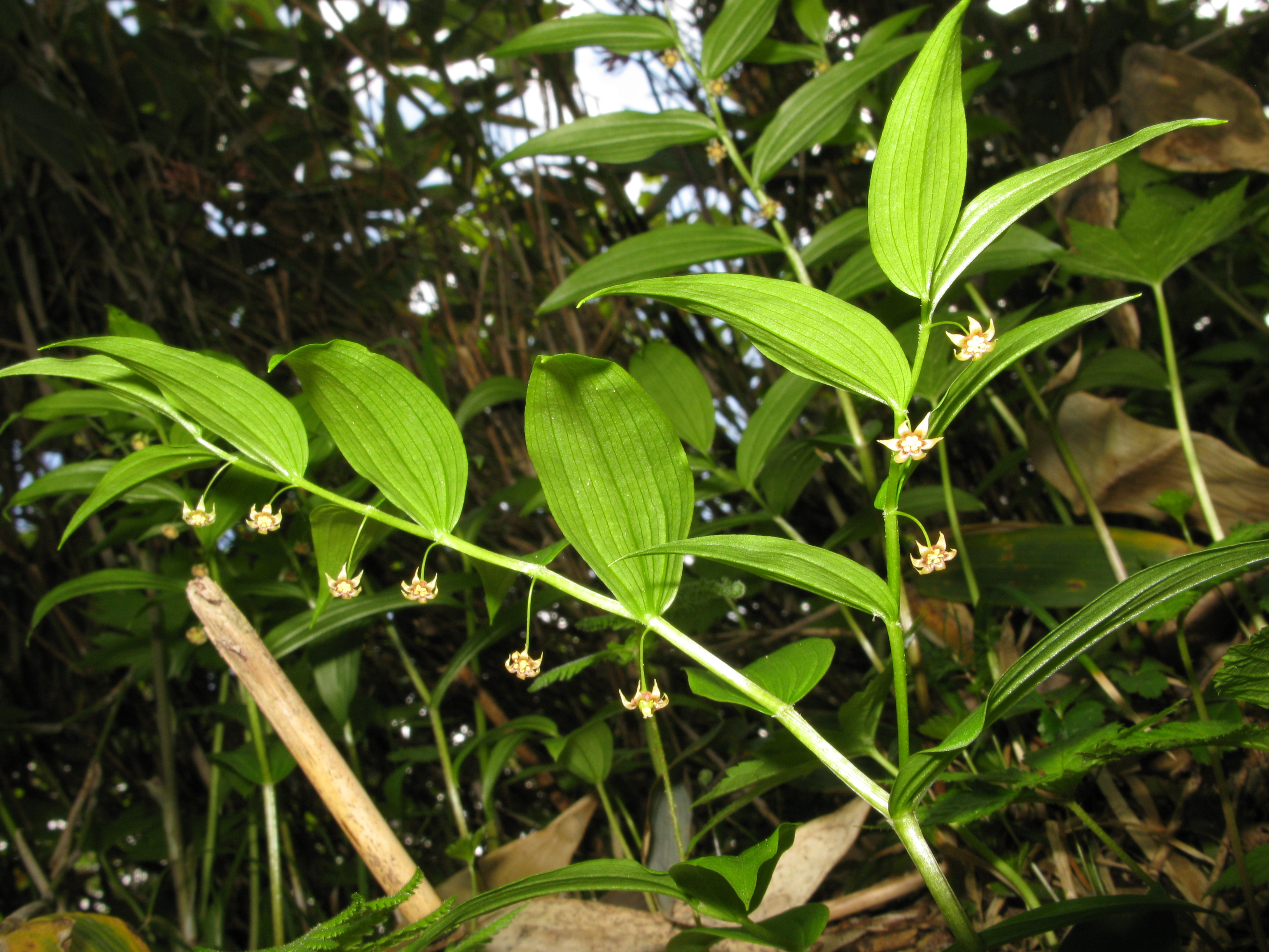 Streptopus streptopoides subsp. japonicus, Mount Nishiazuma, Yamagata pref., Japan